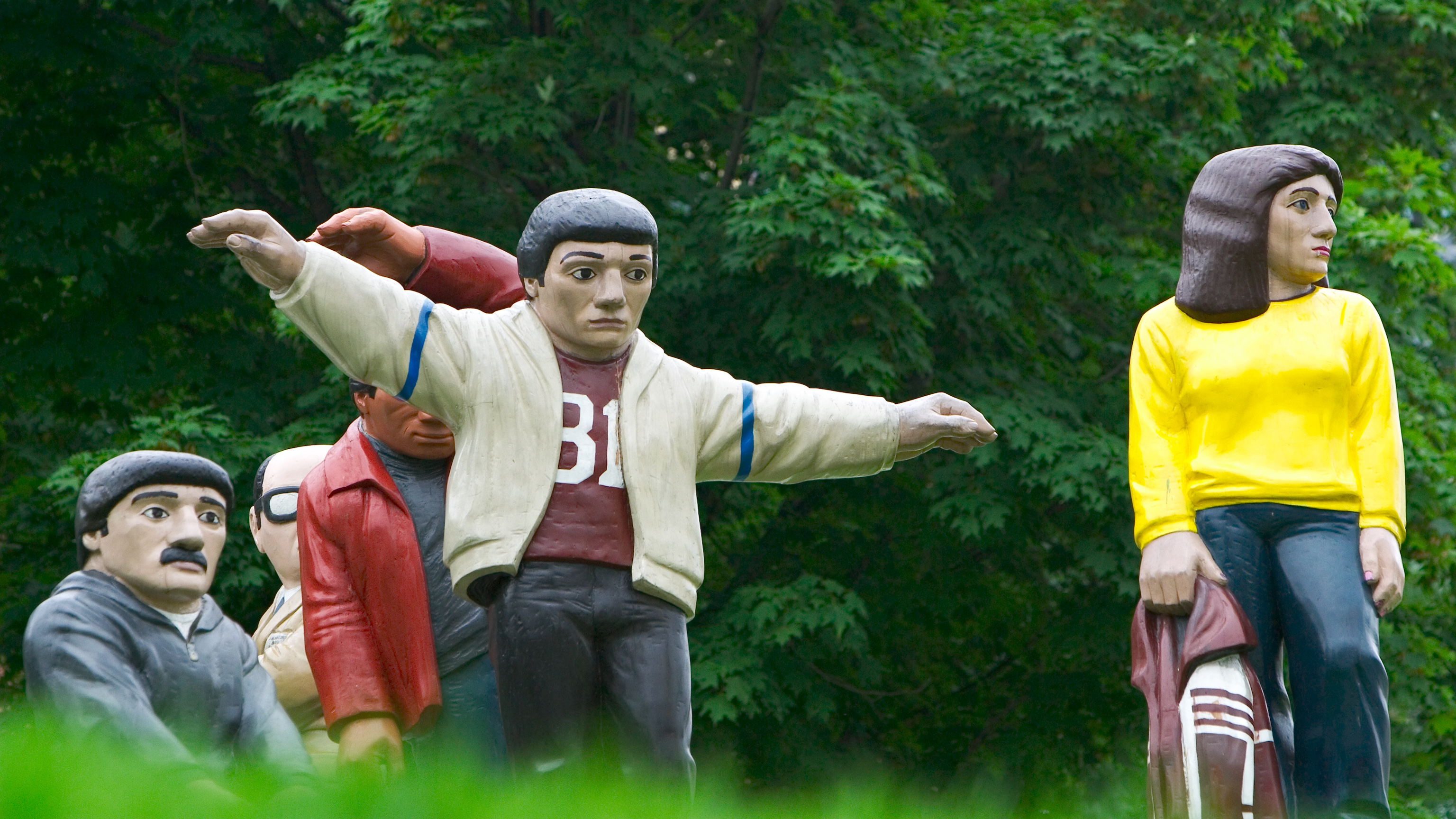 "Balancing", by John Hooper. Alongside the Rideau Canal near the National Arts Centre, Ottawa, Canada.